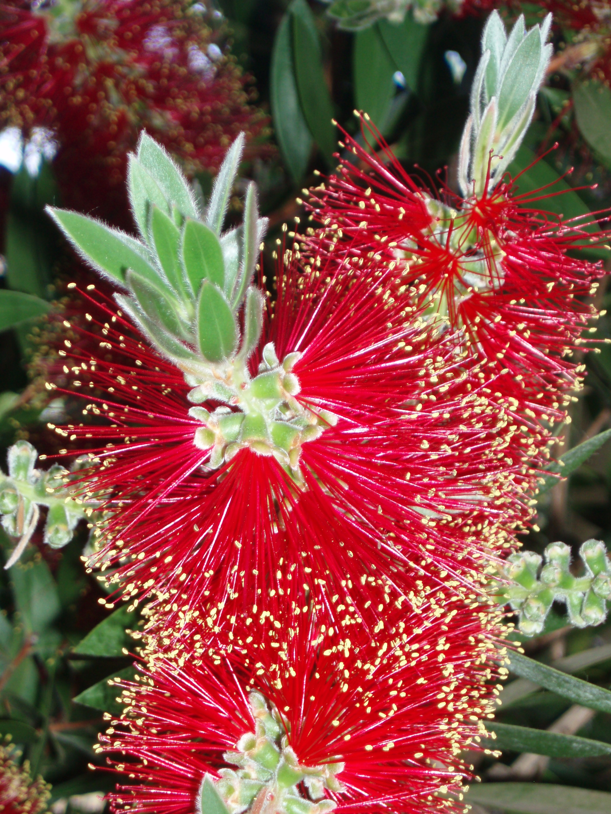 Callistemon citrinus, flower